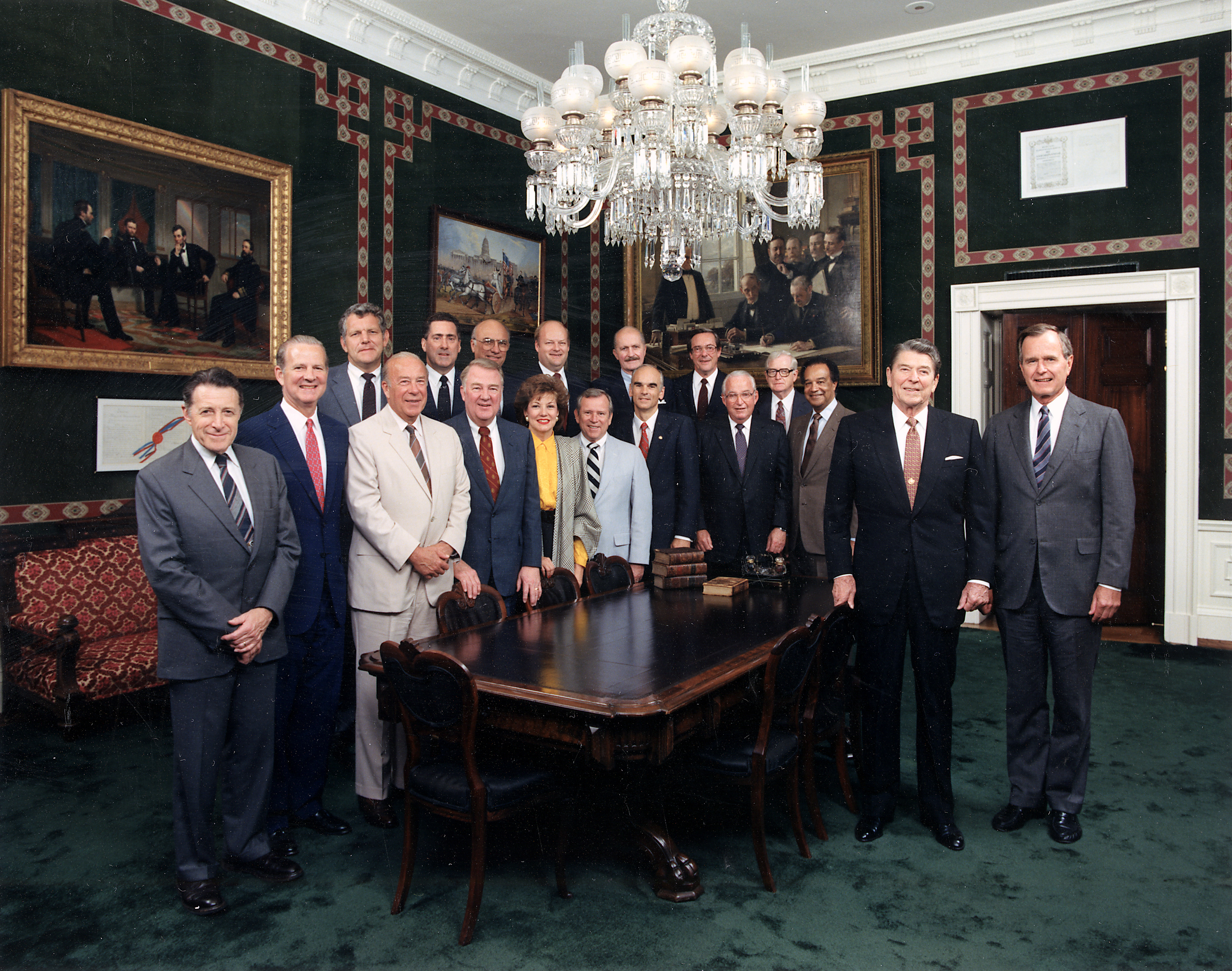 C41605-11, 1987 Cabinet - Class Photo. 7/1/87. Front row Caspar Weinberger, Secretary of Defense James Baker III, Secretary of the Treasury George Shultz, Secretary of State Edwin Meese, III, Attorney General Elizabeth Dole, Secretary of Transportation Howard Baker, White House Chief of Staff Donald Hodel, Secretary of the Interior Richard Lyng, Secretary of Agriculture Samuel Pierce, Secretary of Housing & Urban Development President Reagan Vice President Bush Back row William Bennett, Secretary of Education John Herrington, Secretary of Energy Clayton Yeutter, U.S. Trade Representative James Miller III, Director, Office of Management & Budget Malcolm Baldrige, Secretary of Commerce William Brock, Secretary of Labor Otis Bowen, Secretary of Health & Human Services